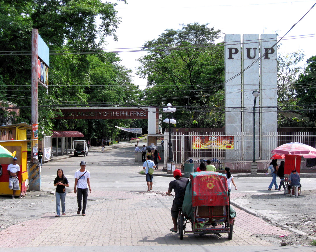 Main entrance of the Polytechnic University of the Philippines, Santa Mesa, Manila, the Philippines